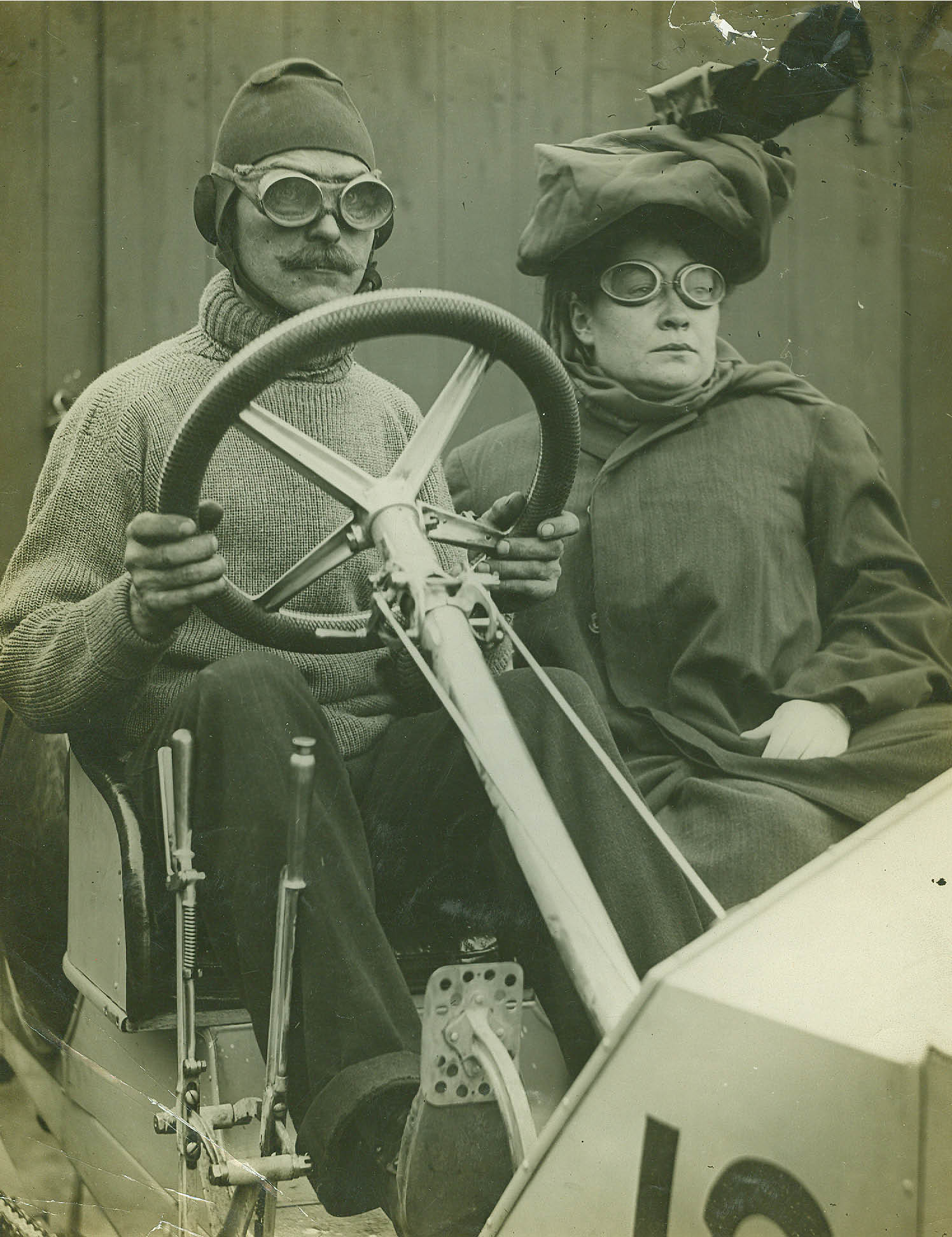 Driver Joe Tracy gives Hearst journalist Ada Patterson a ride in the 90-hp Locomobile entry prior to the 1905 Vanderbilt Cup Race.[1]